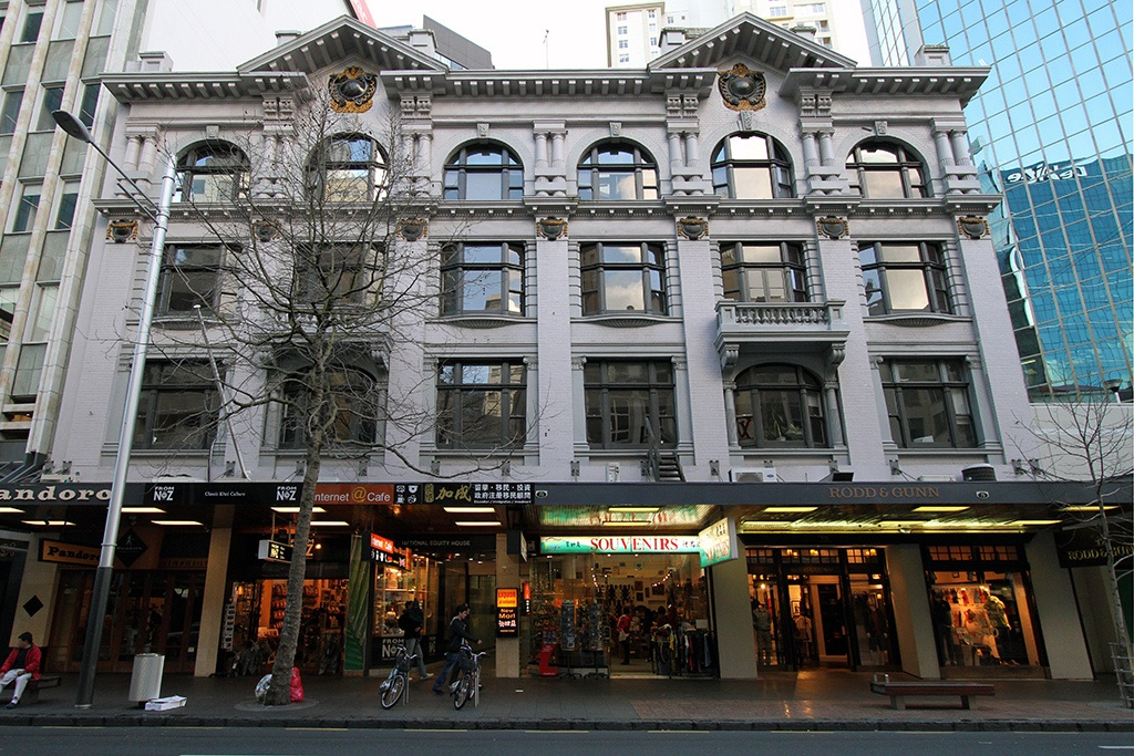 The former Smeeton's Buildings (now named Encom House) at 75 Queen Street, Auckland, designed by New Zealand architect William Alfred Holman.